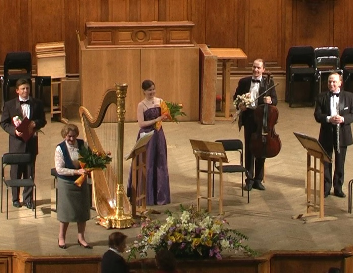 Композитор Татьяна Смирнова на премьере "Персидских мотивов" в Московской консерватории